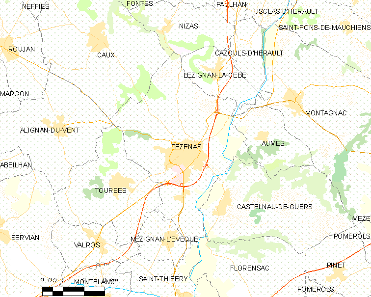 Map commune FR insee code 34199.png - Pézenas